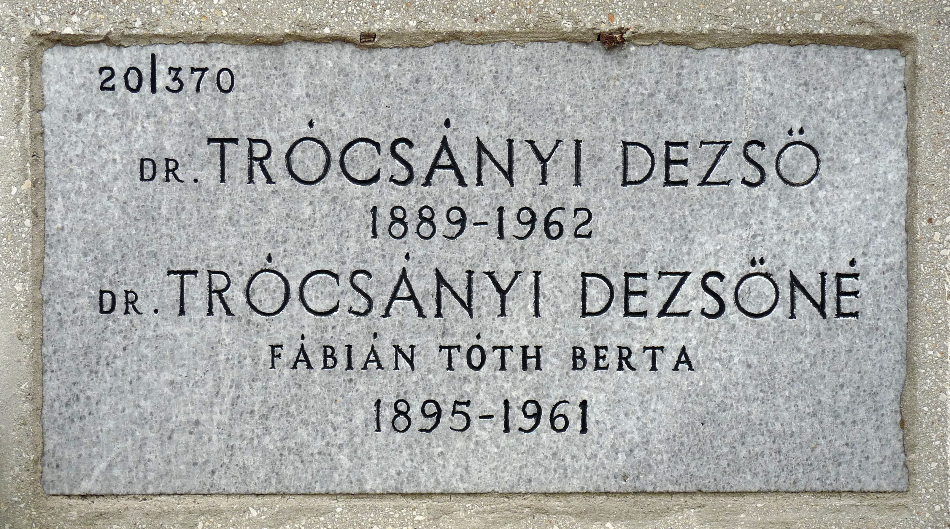 Colombarium faceplate of Dezső Trócsányi (1889–1962) Hungarian philosophical and pedagogical writer in the Óbuda cemetery (20-370).